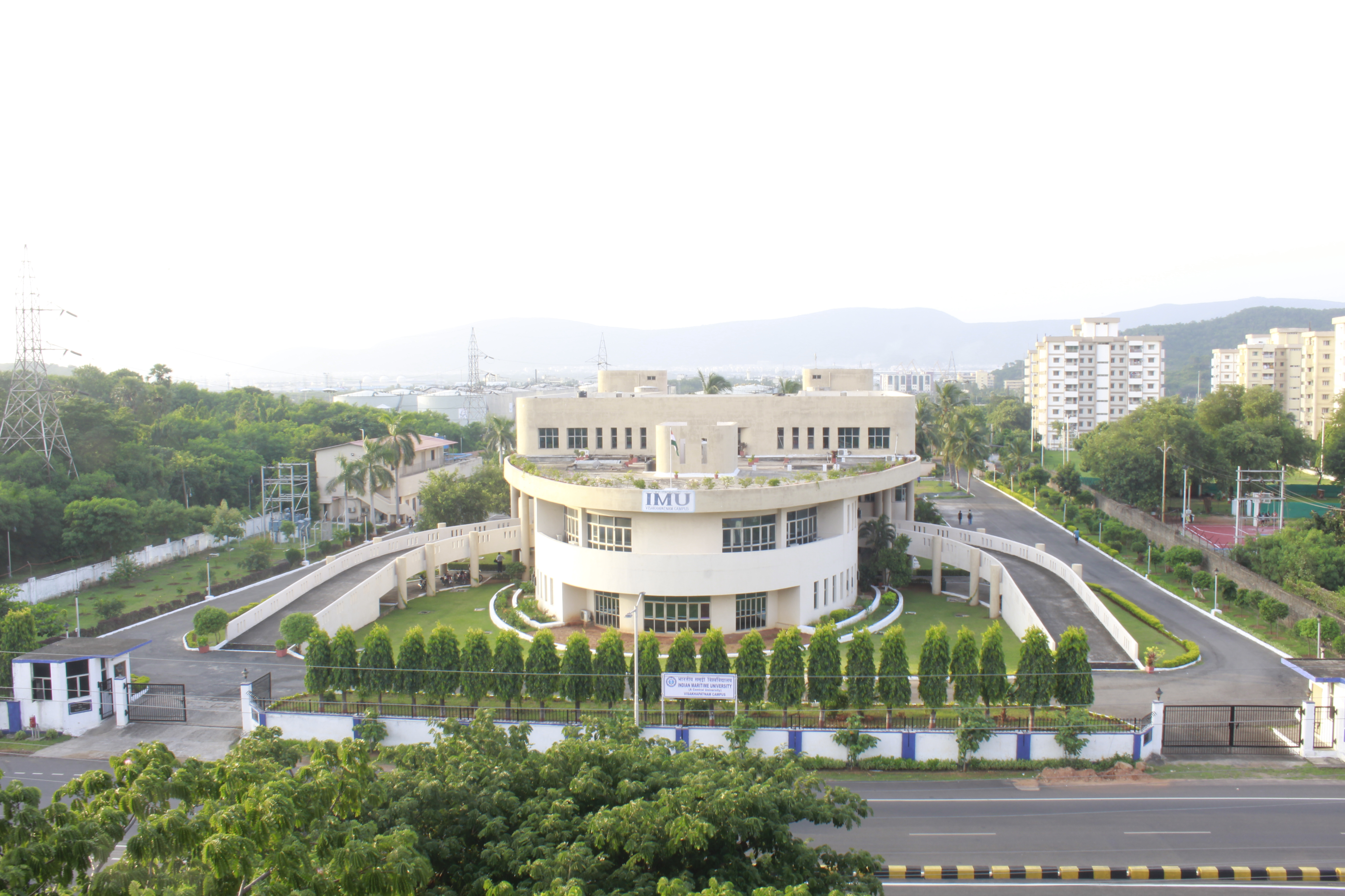 Front View of the IMU Visakhapatnam Campus